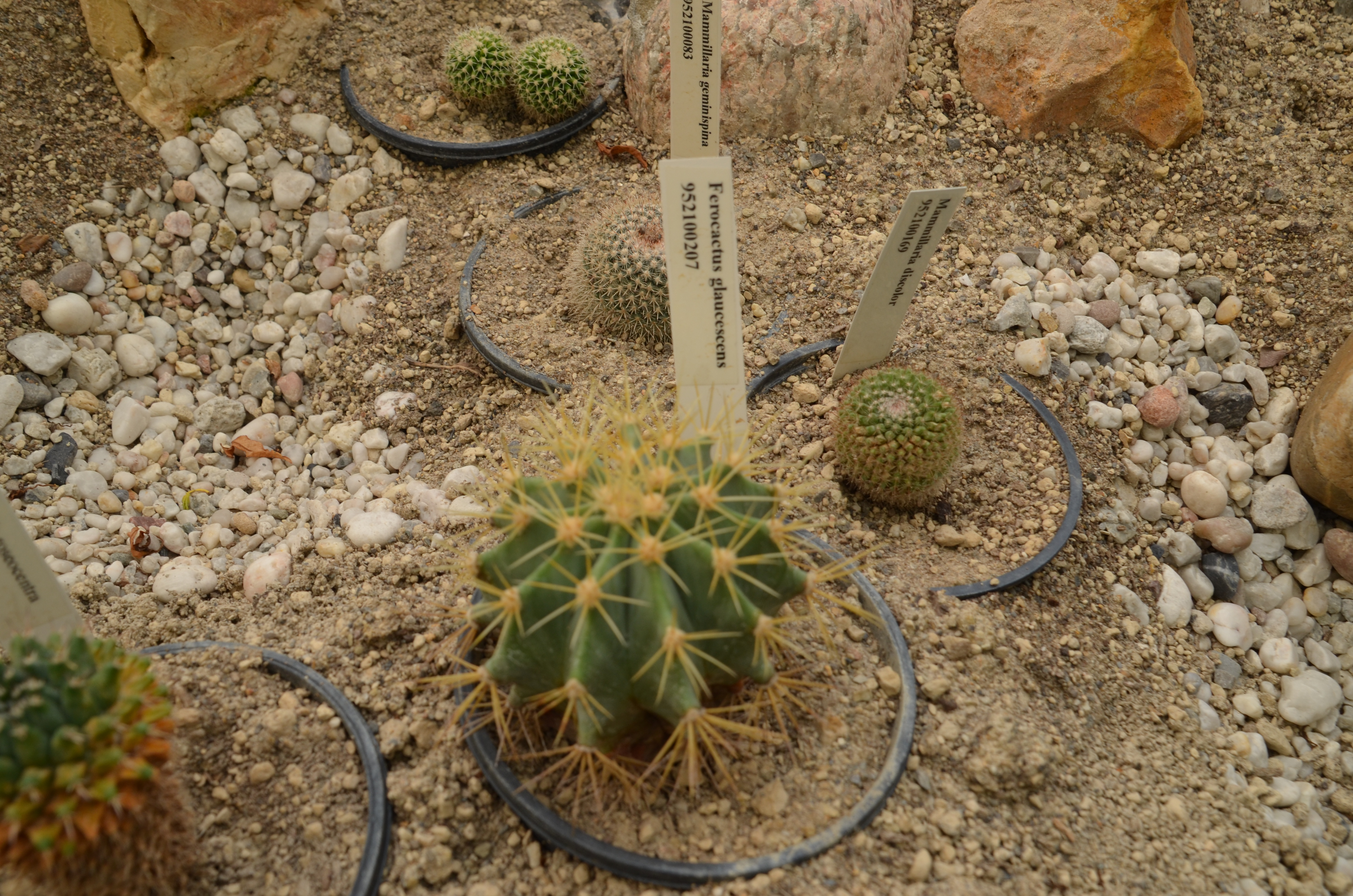 Botanical garden T.U.Delft in 2015